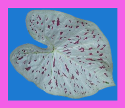 thai